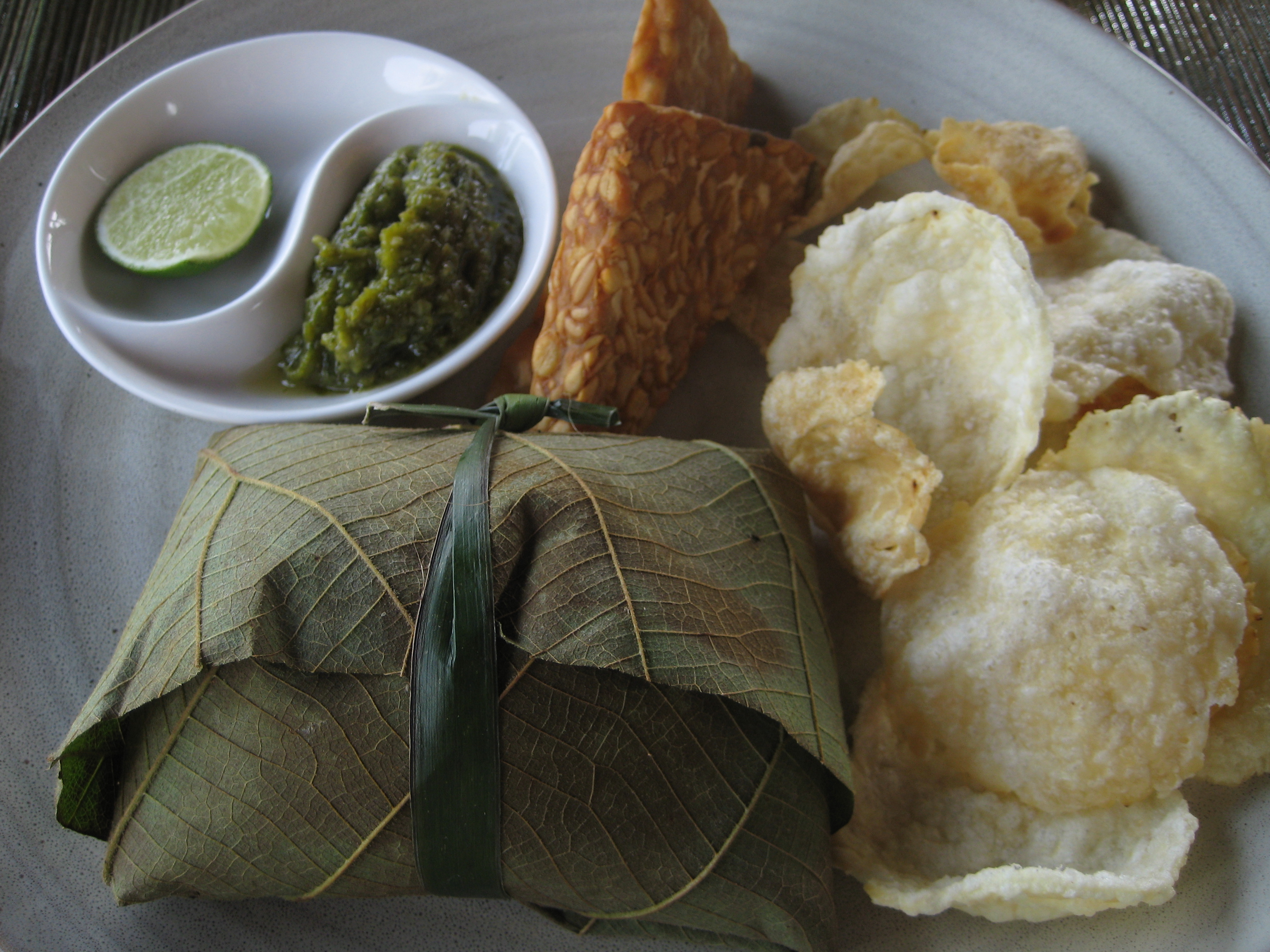 Javanese Cuisine, Omar Dhayum, Djogdja